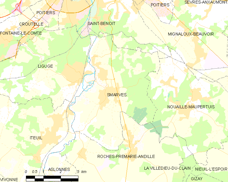 Map of French municipality Smarves